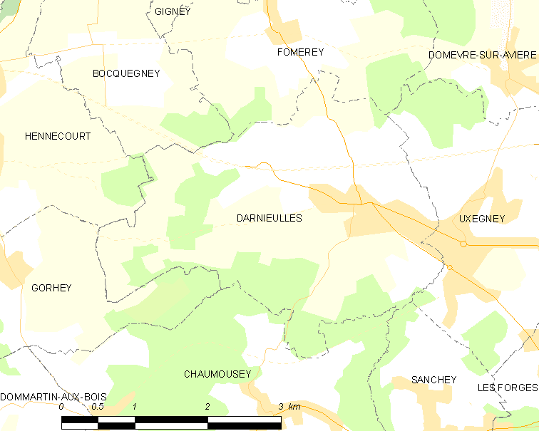 Map of French municipality Darnieulles